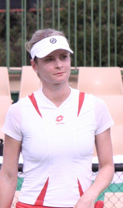 Martina Sucha at the 2007 Australian Open.